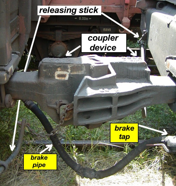 SA3 coupler. photo by Zoltán Bogoly 2007